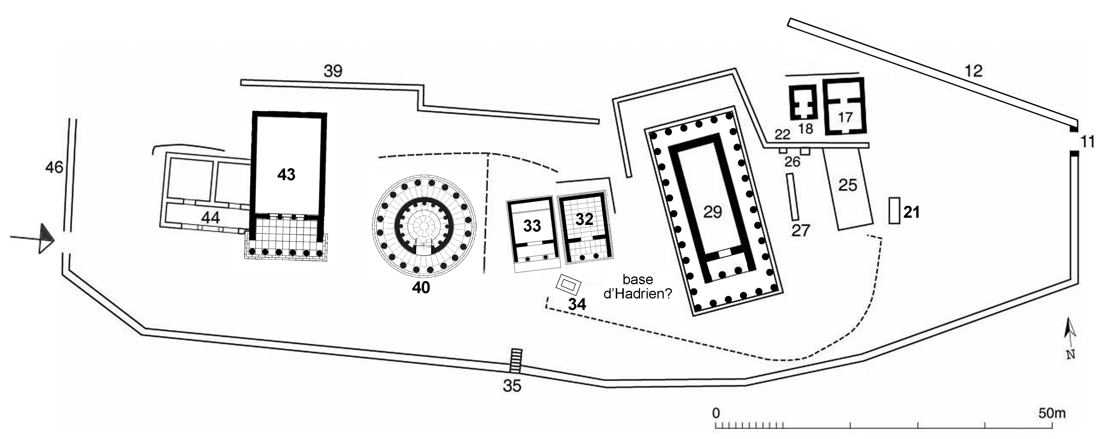 Map of Marmaria (Delphi)